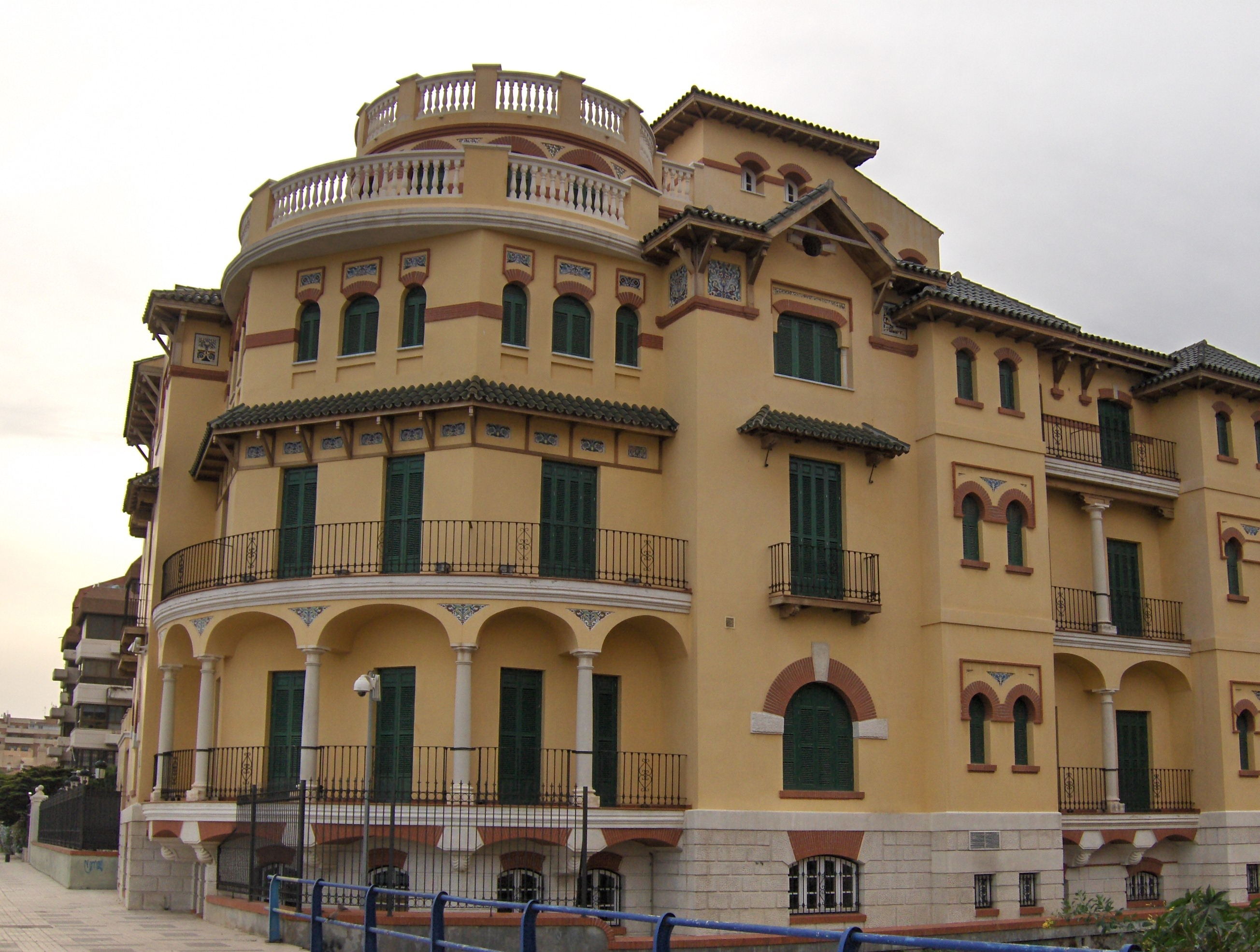 Former Hotel Caleta Palace, Málaga, Spain.